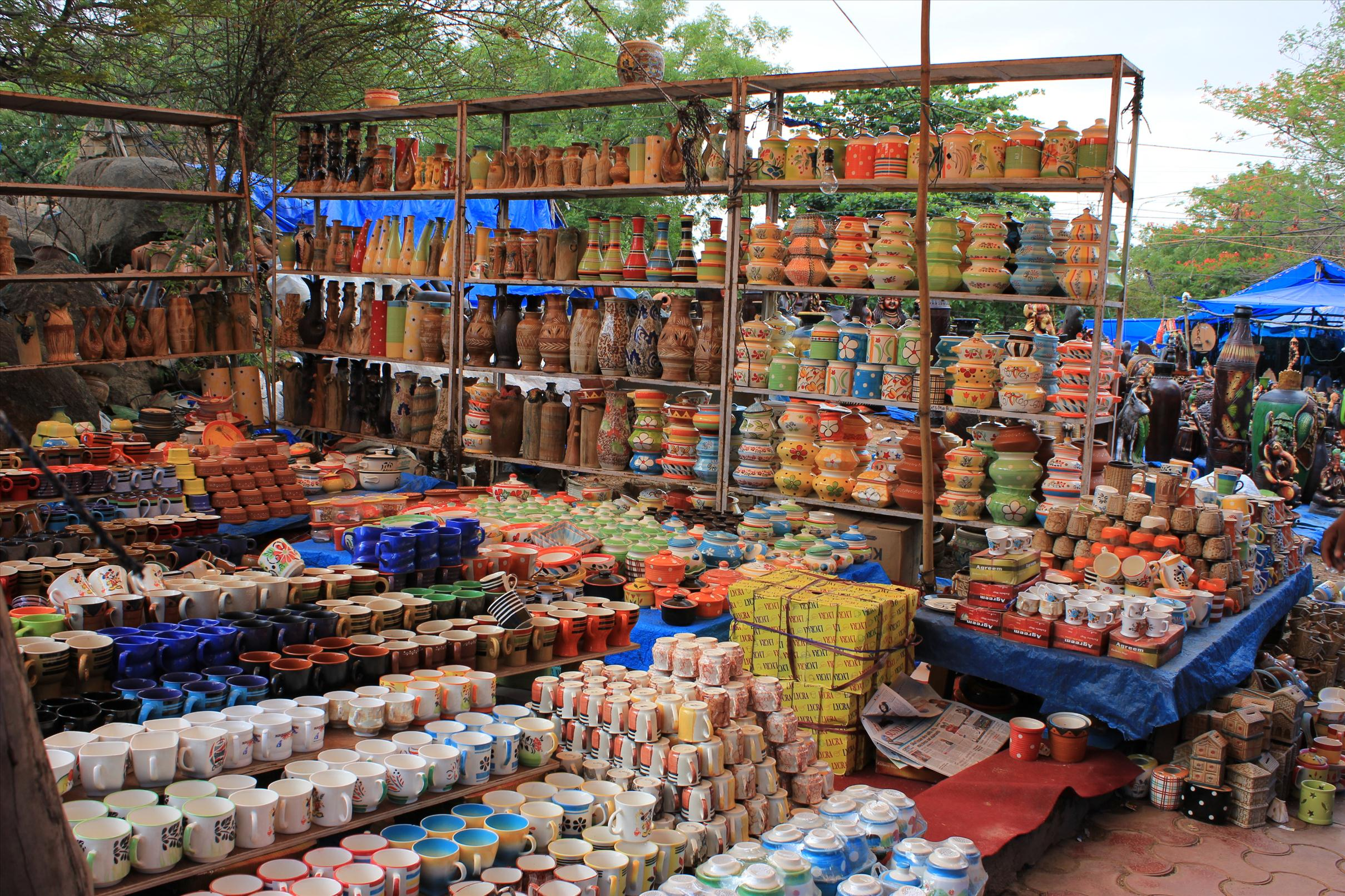 Porcelean decoratives at Shilparamam.